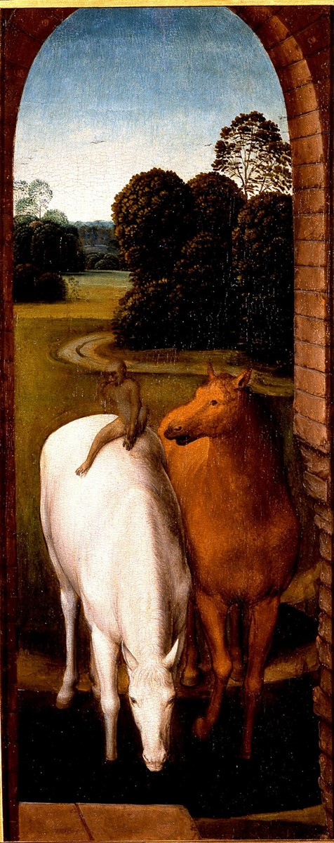 Together with File:Hans Memling 050.jpg (Metropolitan Museum of Art, New York) this panel was probably part of a larger work, a diptych or a triptych. The lady on the other panel is holding a carnation as a sign that she is in love. Together the panels formed an allegory of (true) love.